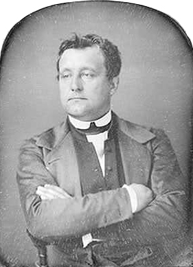 Jerome Napoleon Bonaparte-Patterson (1805-1870) in his mid-forties. Daguerreotype, photographer unknown.